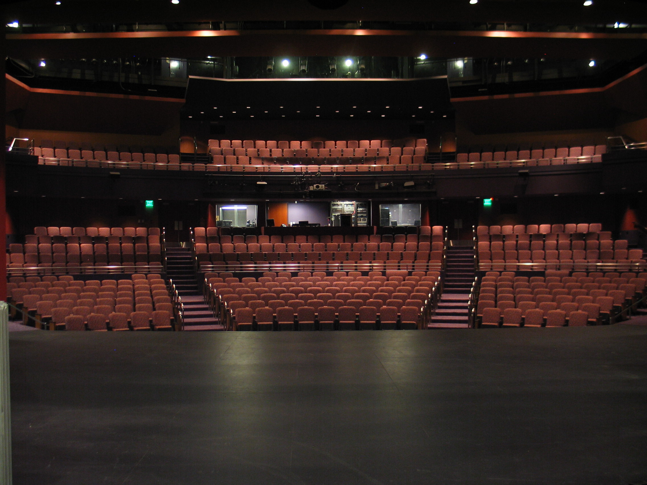 Seating Plan of the Lewis Family Playhouse